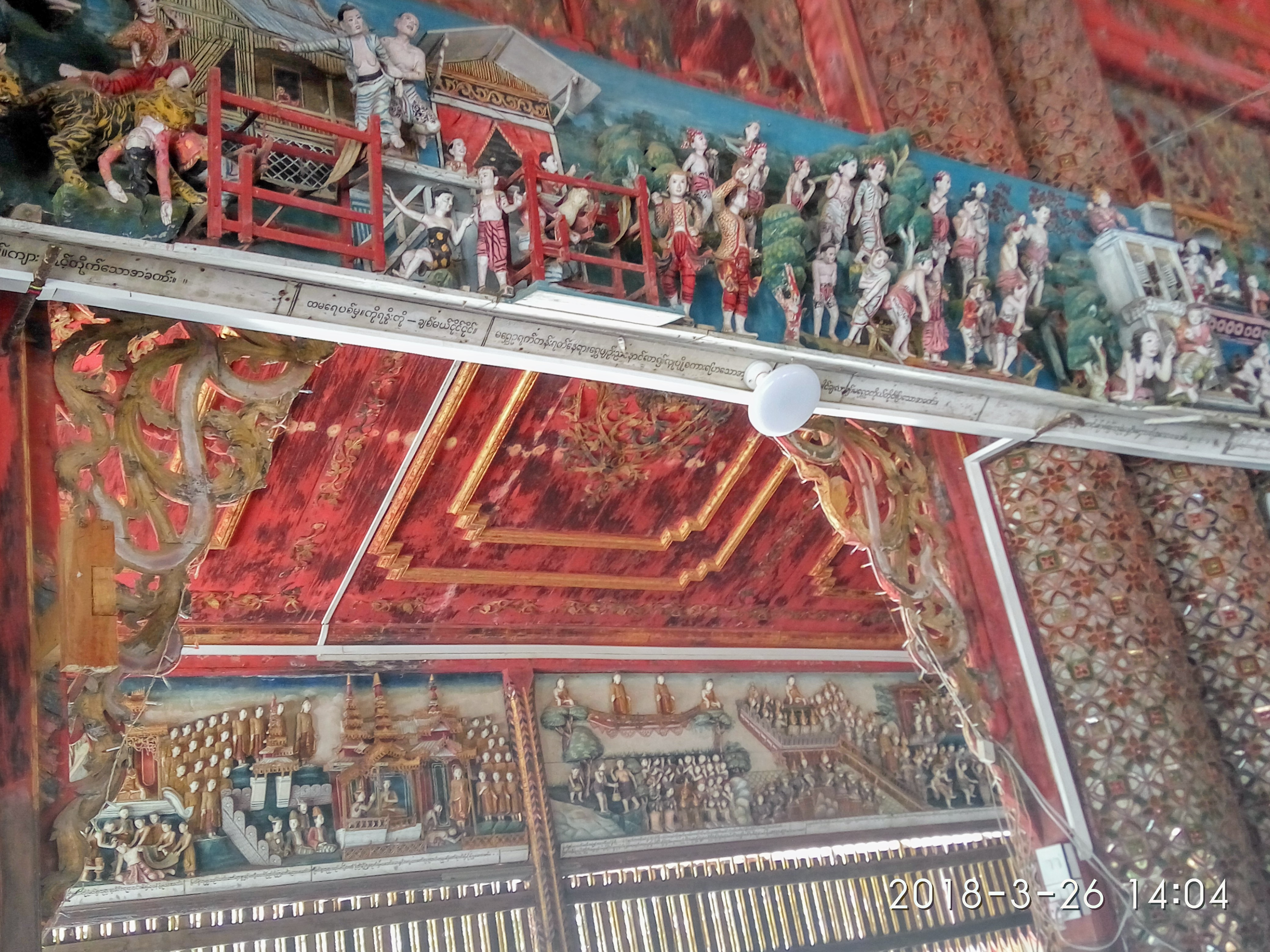 U Nar Auk Buddhist Ordination Hall Relief Arts, Kor Nat Village, Kayin State. မြန်မာဘာသာ: ဦးနာအောက် သိပ်တော်ကြီးရှိ နံရံကပ် ရုပ်လုံး ရုပ်ကြွများ၊ ကော့နှတ်ကျေးရွာ၊ ကရင်ပြည်နယ်